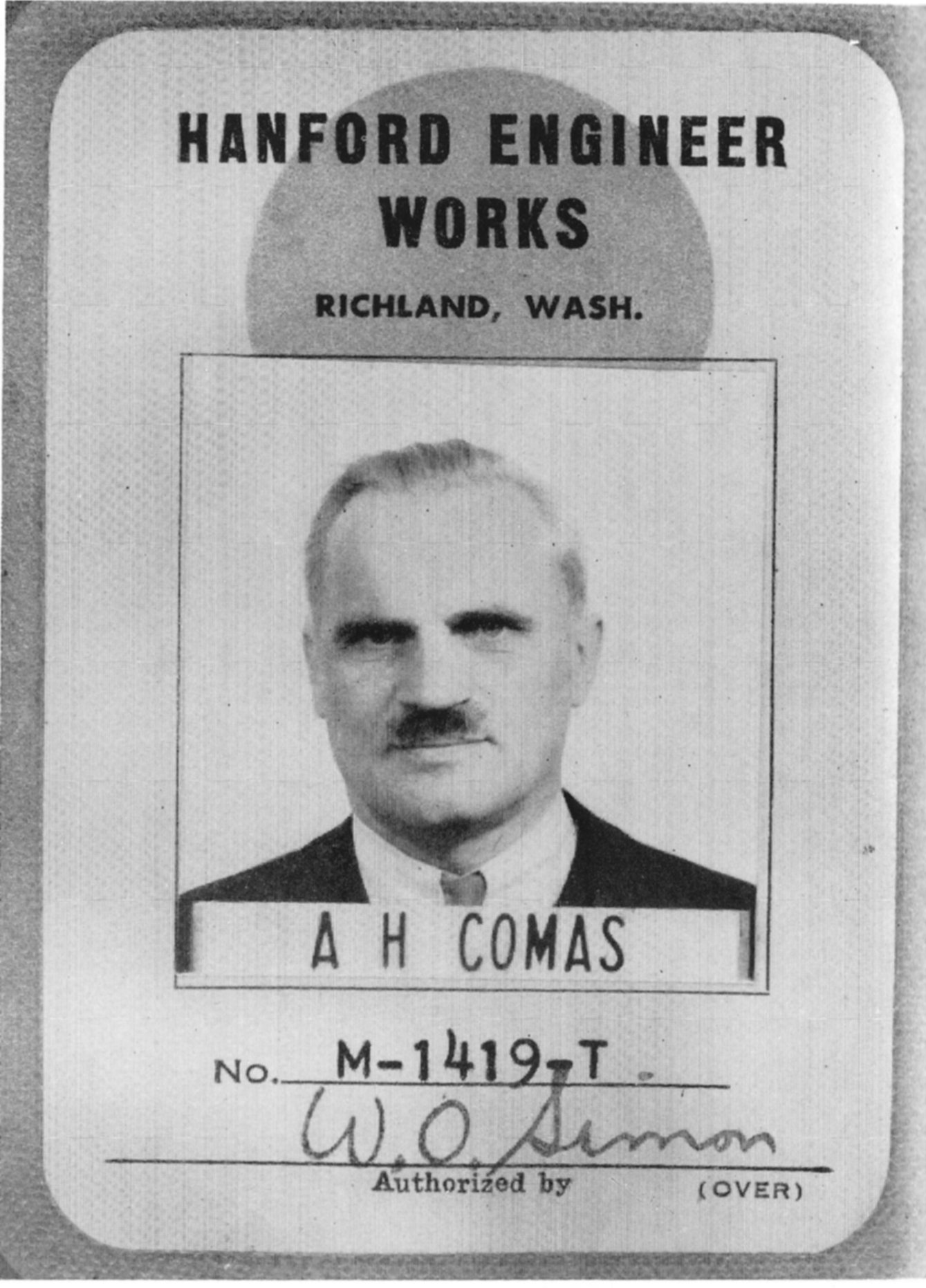 Arthur Compton's ID badge from the Hanford Site. For security reasons, he uses a fake name.